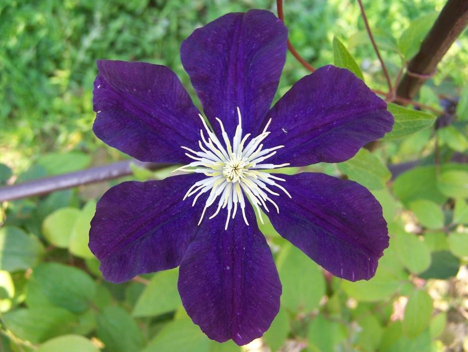 Clematis cultivar, not `The President`